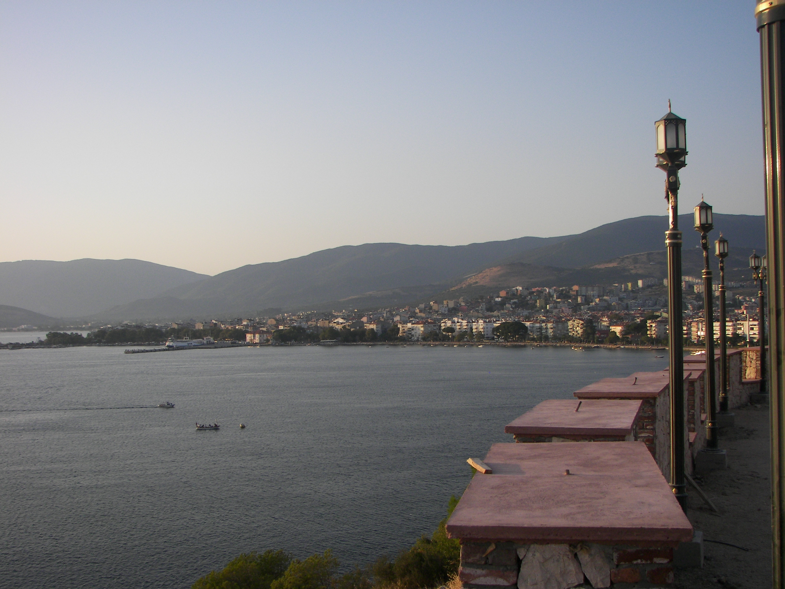 view